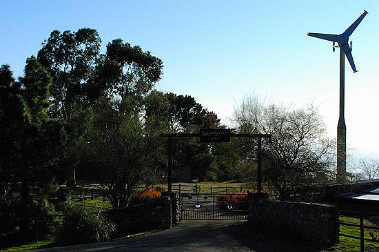 Gate to Laurel Springs Ranch from Painted Cave Road.